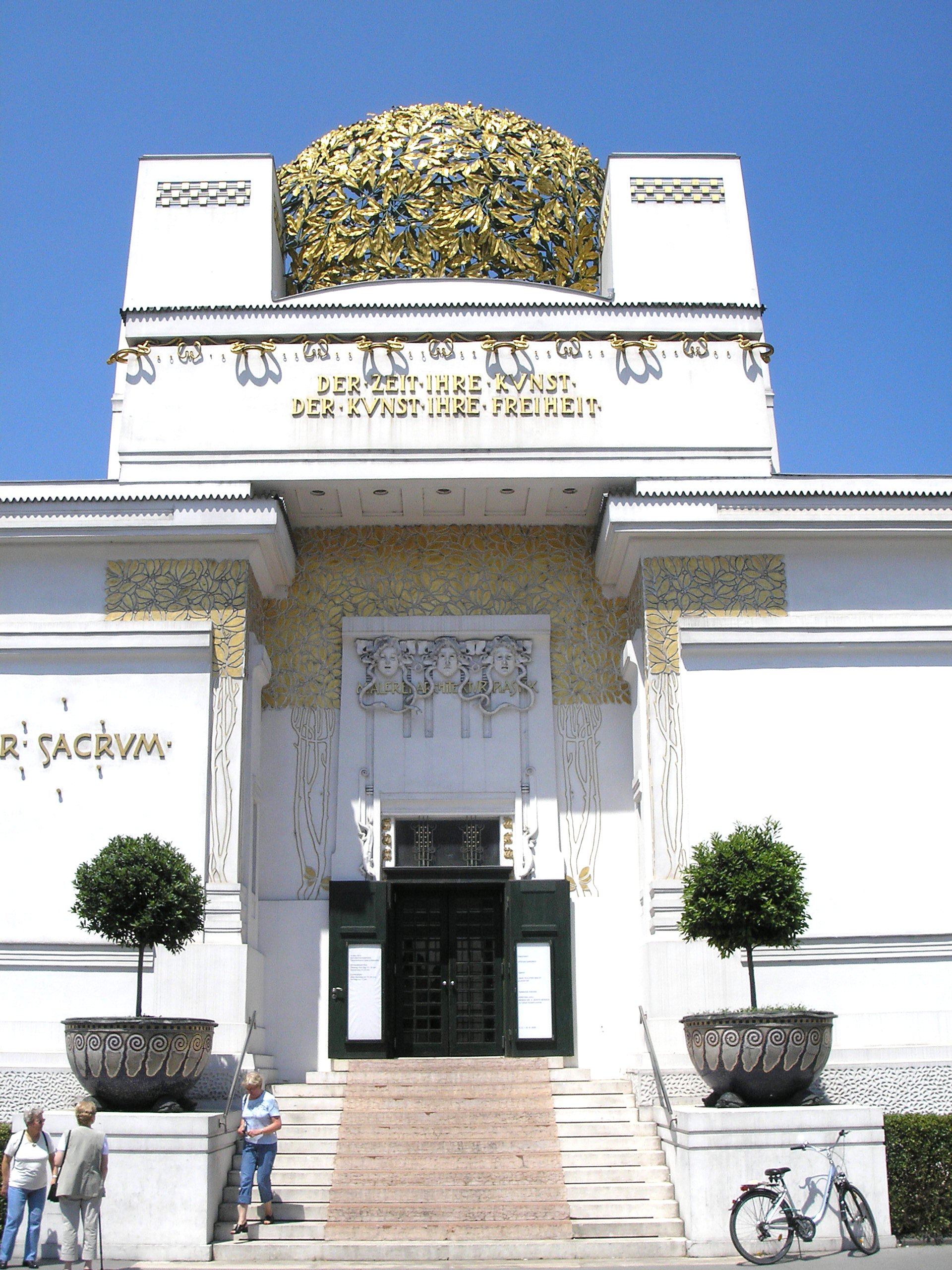 Austria, Vienna, Secession hallDetail of the Secession building in Vienna, constructed by Joseph Maria Olbrich. It is one of the best known examples of Secessionist architecture.inscription: DER ZEIT IHRE KUNST - DER KUNST IHRE FREIHEIT (Each period needs its art and this art needs freedom.)